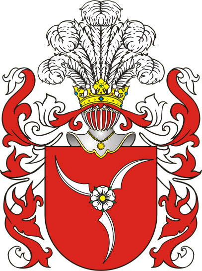 Clan Rola